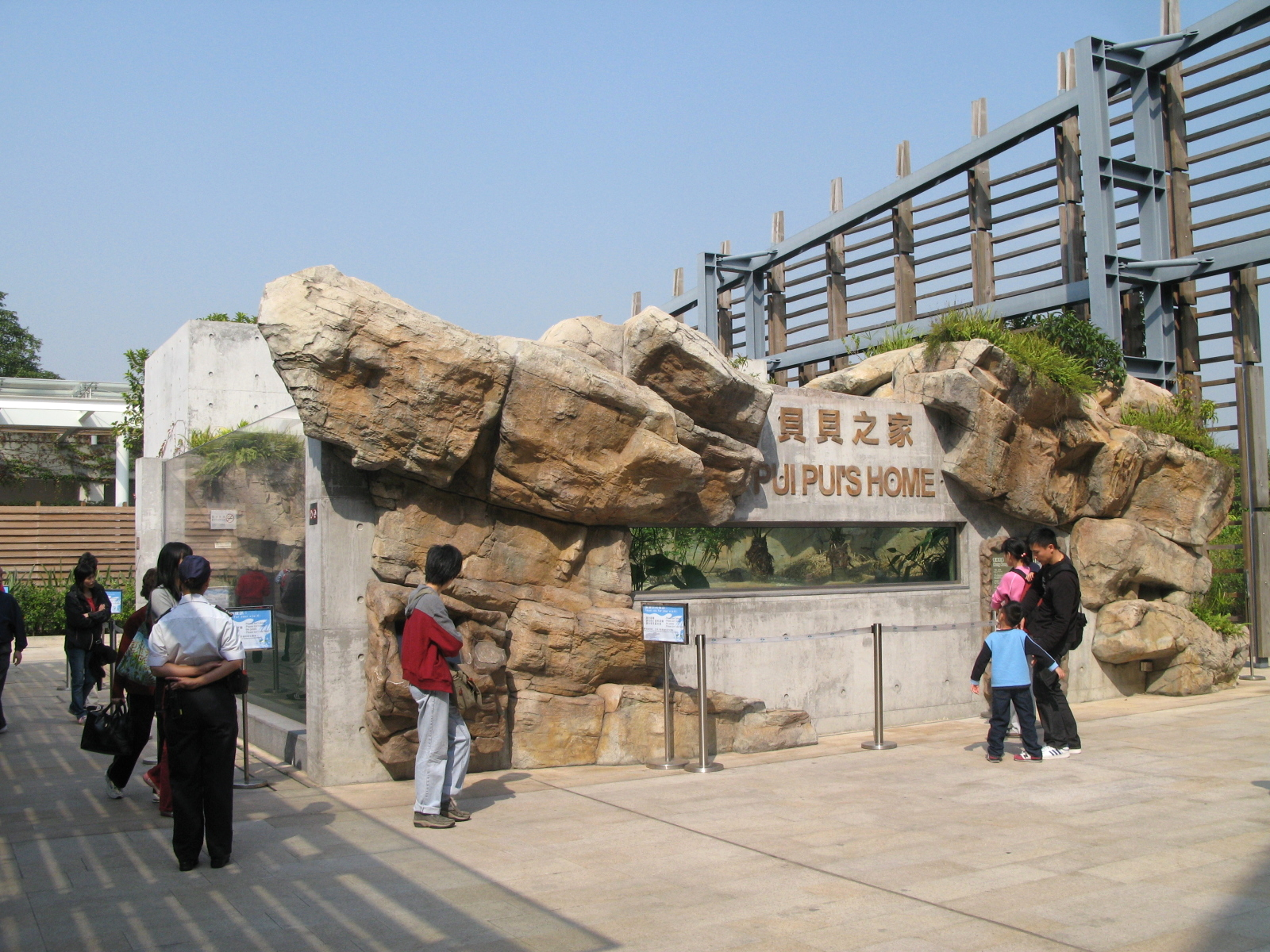 HK Wetland Park Pui Pui's Home.